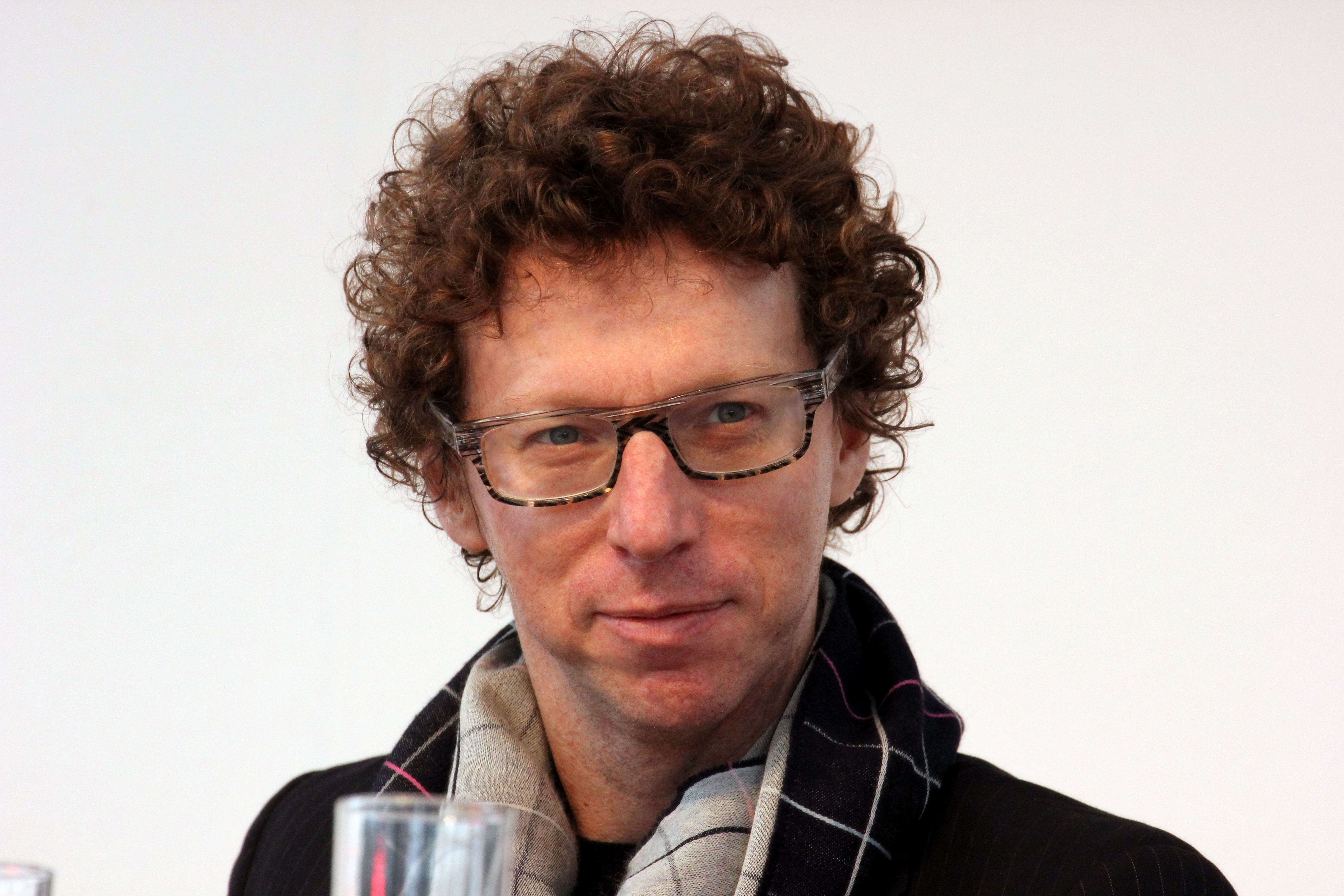 Arnon Grunberg Frankfurt Book Fair 2016